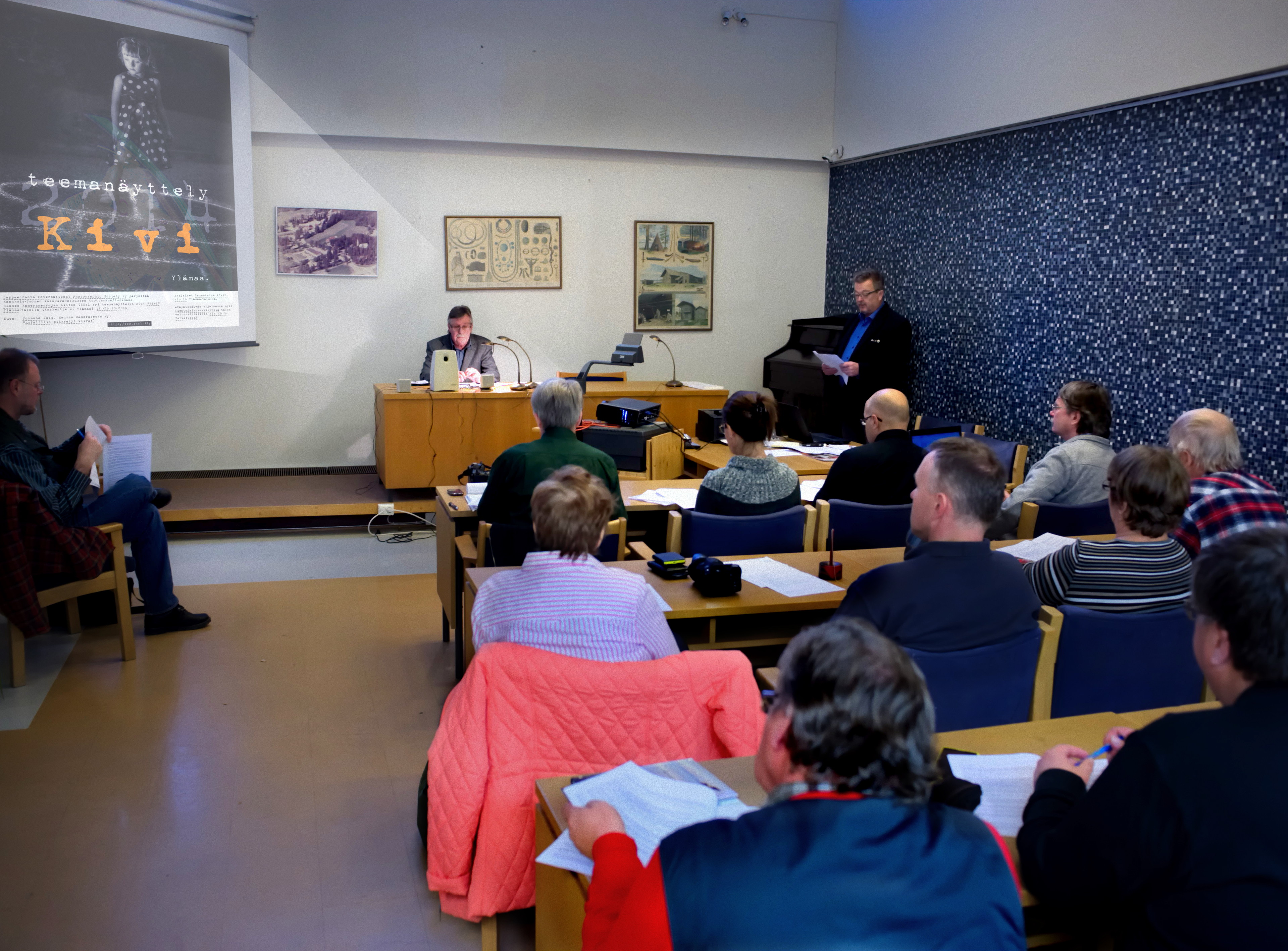 Annual Meeting of the Association of Finnish Camera Clubs in Ylämaa, Finland 2014